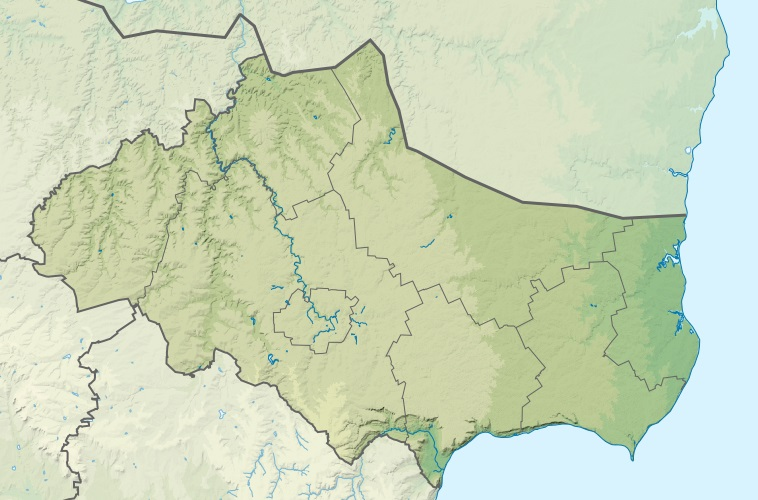 relief location map Dobrich Province, Bulgaria. Geographic limits of the map